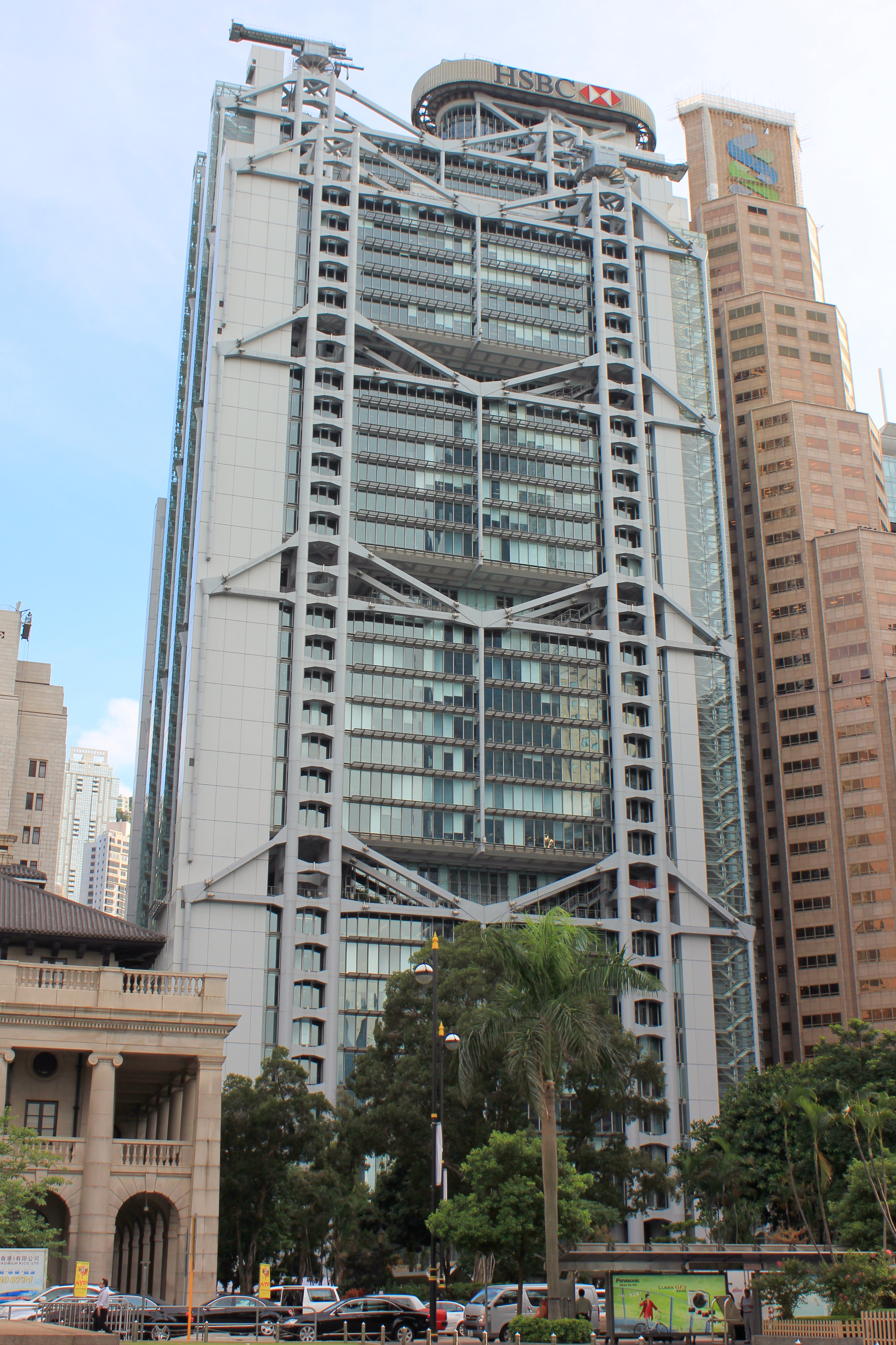 The Hong Kong headquarters of HSBC